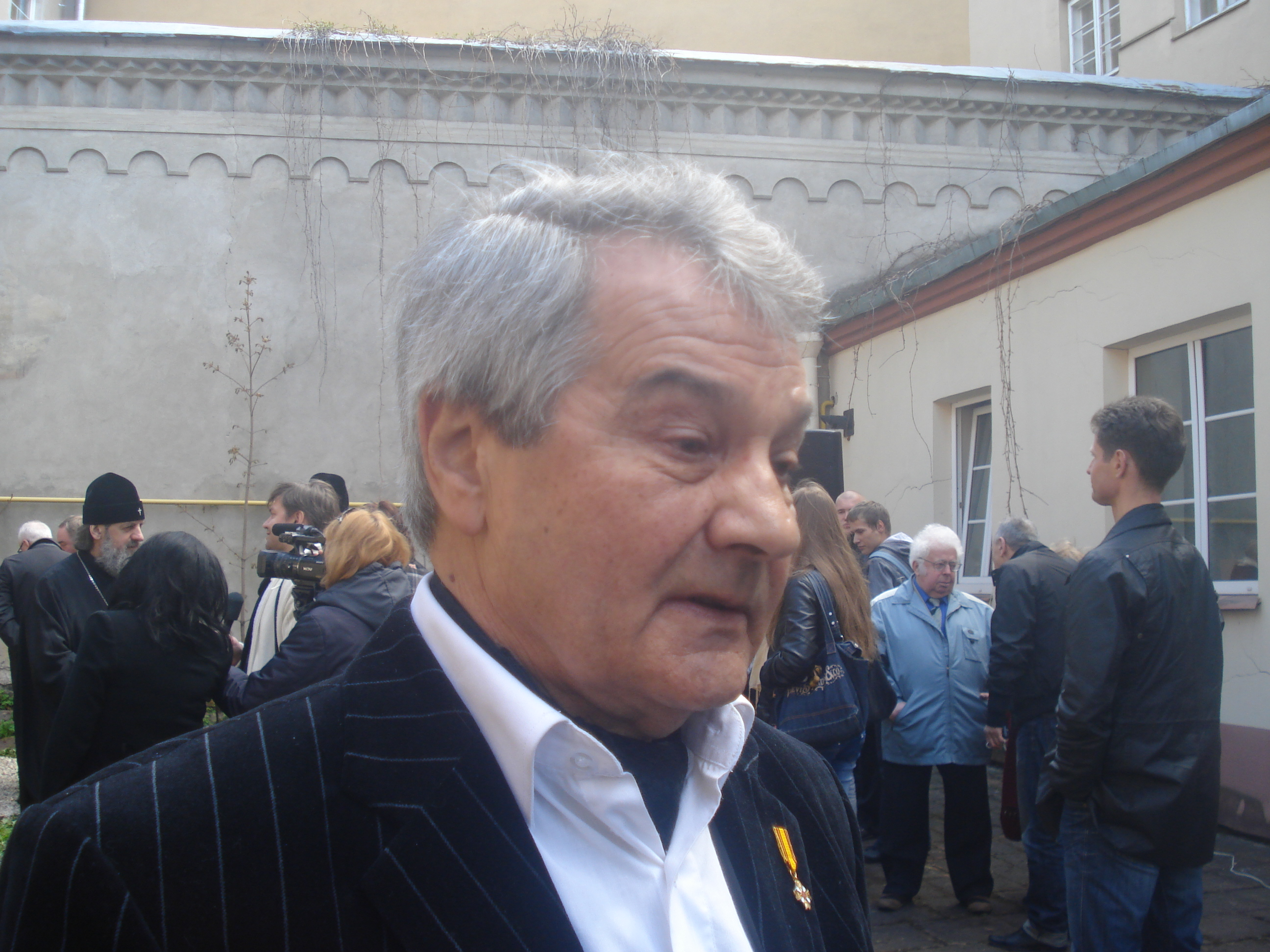 Juryj Kobrin (born 1943), Russian poet living in Lithuania